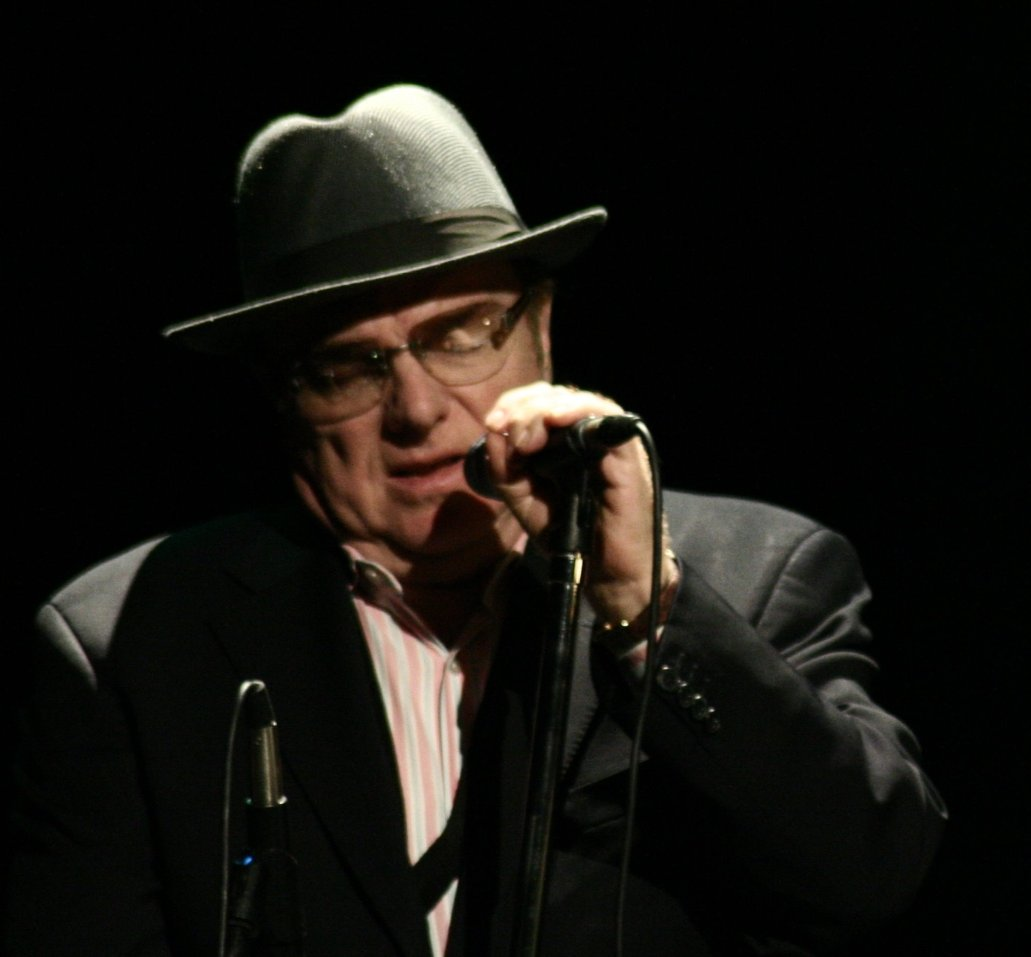 Van Morrison